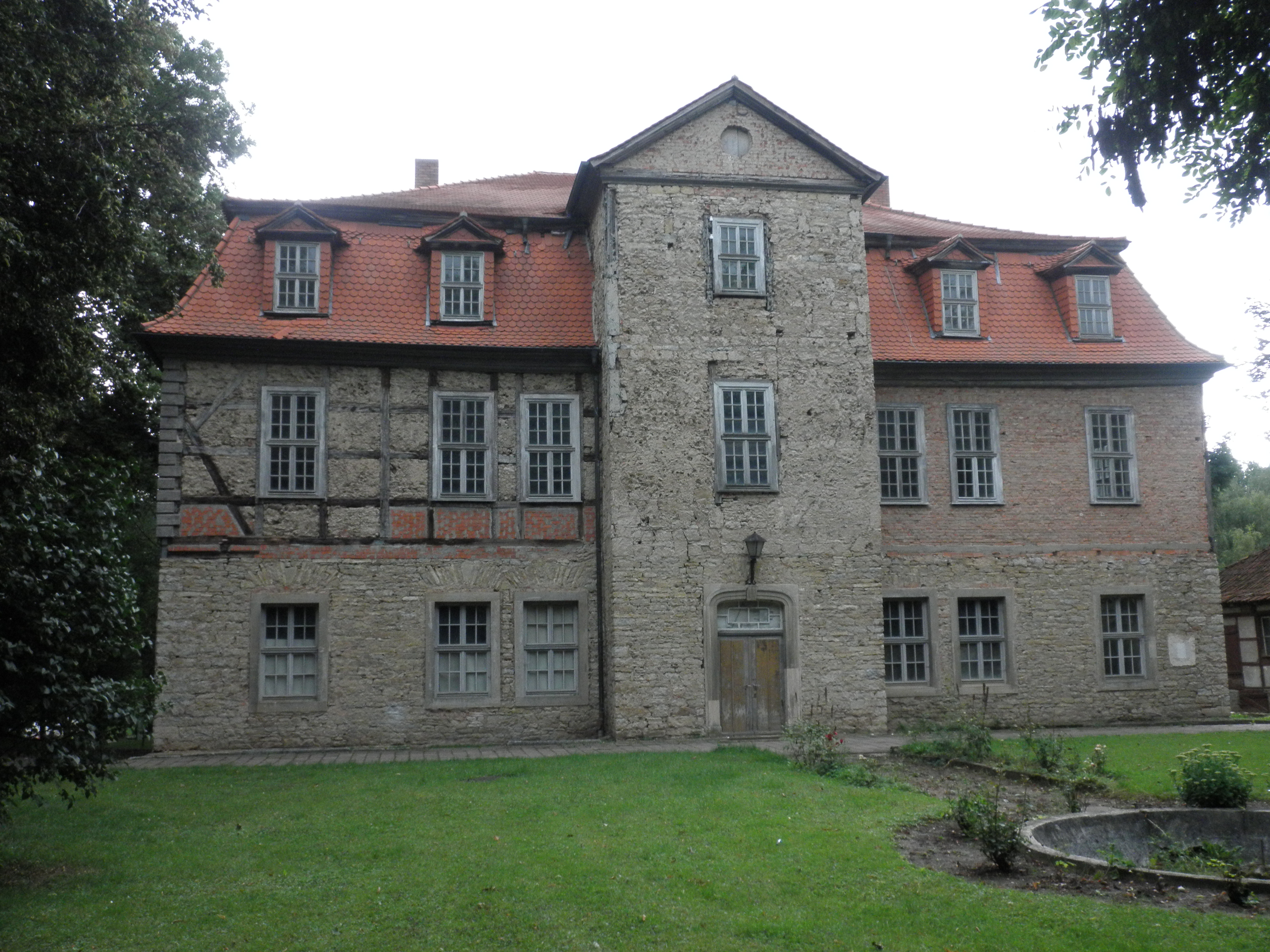 Castle in Neunheilingen in Thüringen